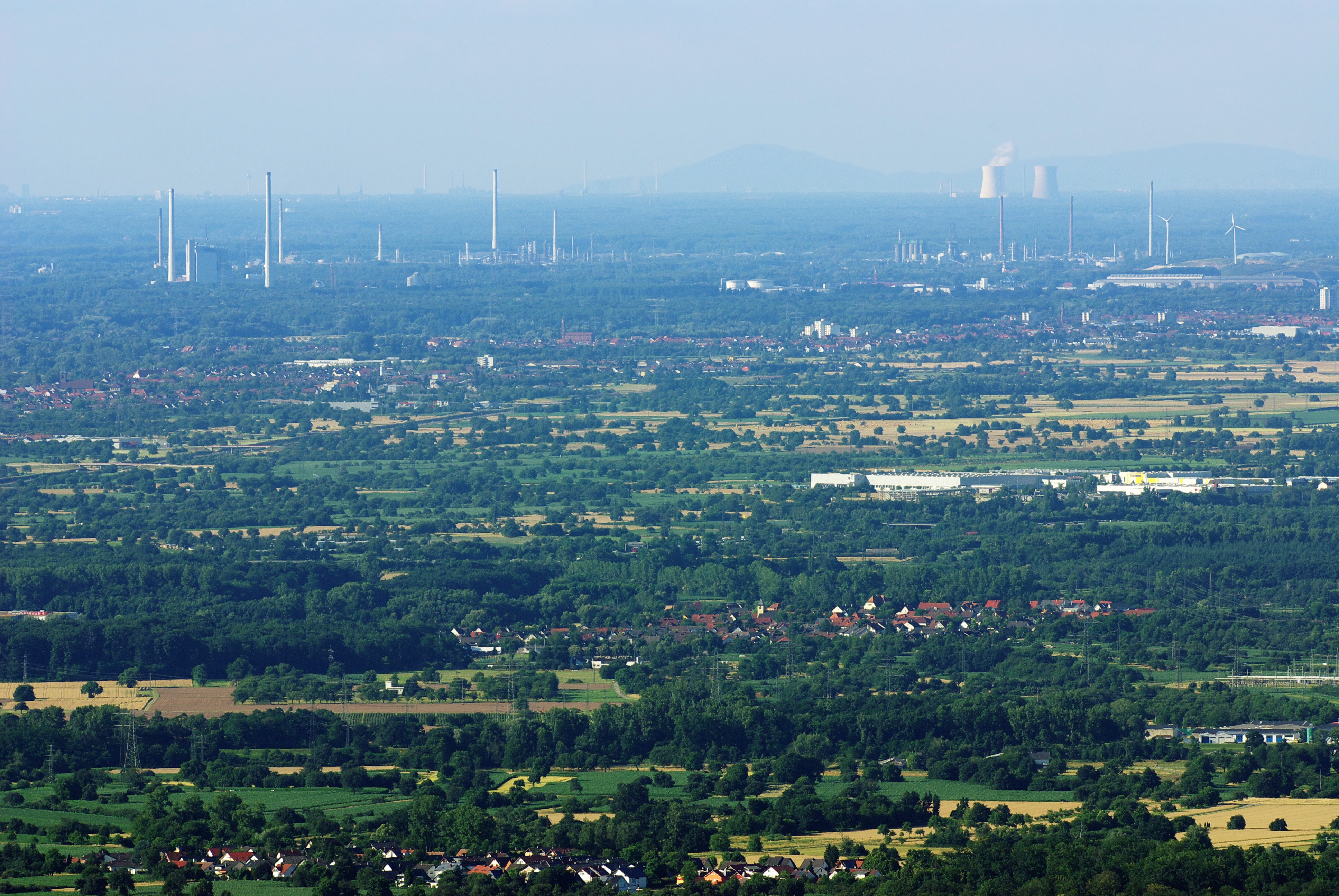 View from mount Fremersberg near Baden-Baden across the Upper Rhine Plain to the Odenwald.